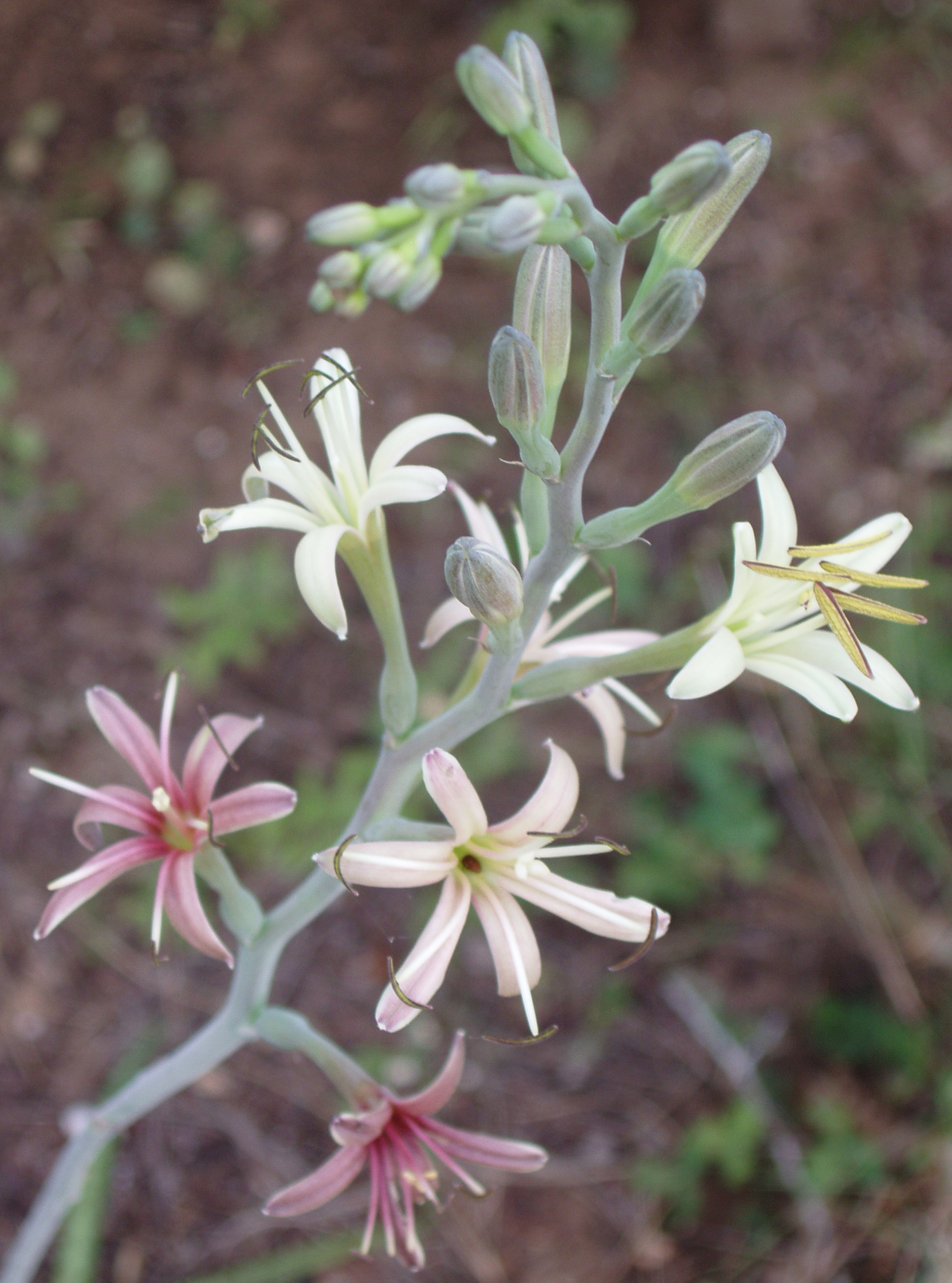 Showing unopened buds on top, young lighter blooms, progressing to darker maroon older blooms on bottom.